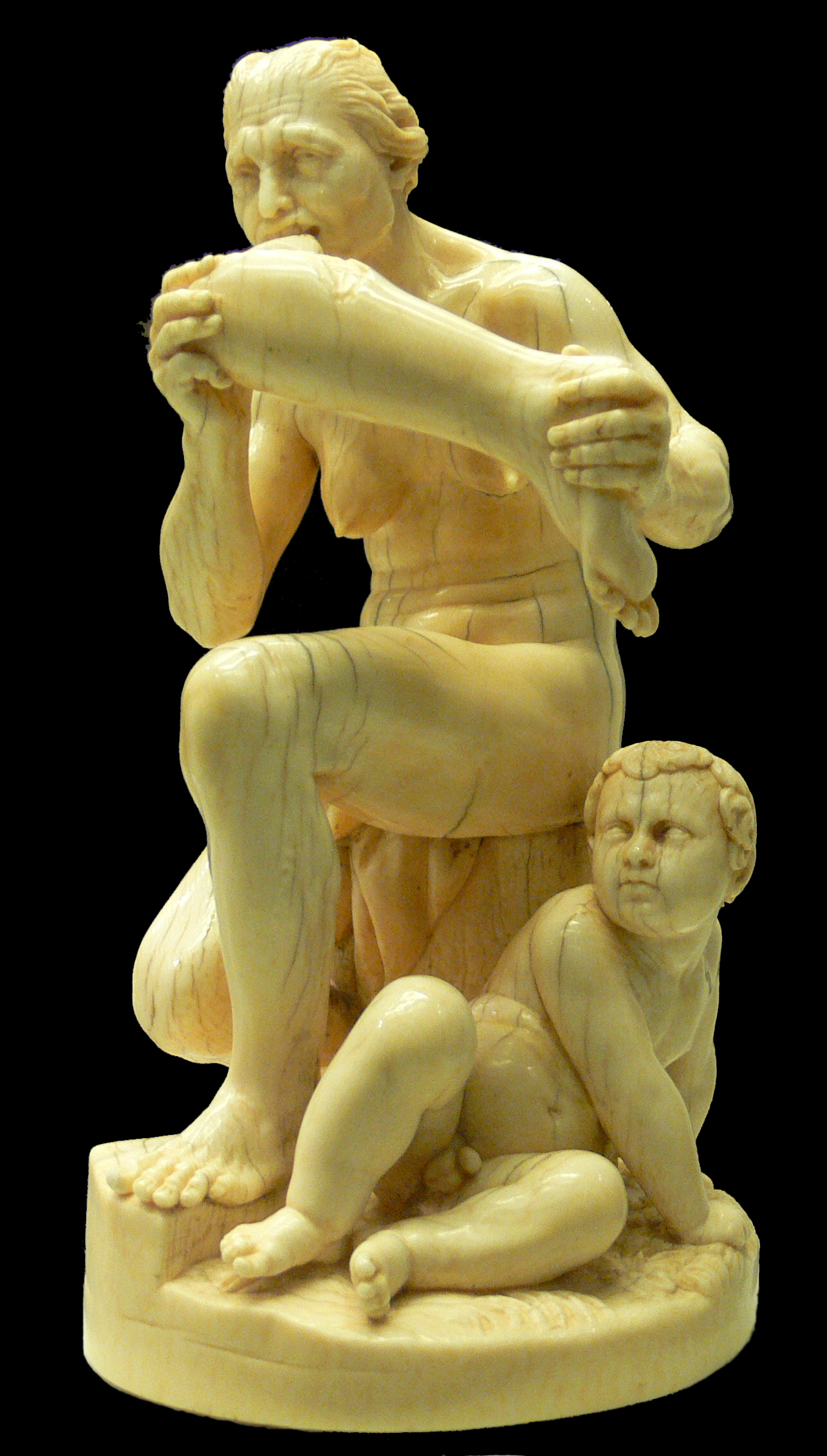 Leonhard Kern (1588–1662) DescriptionGerman sculptorDate of birth/death 2 December 1588 14 April 1662Location of birth/death Forchtenberg Schwäbisch HallAuthority control : Q896084 VIAF: 32791467 ISNI: 0000 0000 6676 3394 ULAN: 500010178 LCCN: nr91008529 WGA: KERN, Leonhard WorldCat creator QS:P170,Q896084 Menschenfresserin (female cannibal) Ivory, Schwäbisch Hall, c. 1650 Württembergisches Landesmuseum Stuttgart, Inv. 1988-332